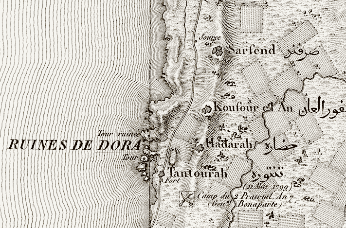 Portion of map of Pierre Jacotin of northern Palestine, prepared during French military expedition of 1799 and published in 1826. Full name: Carte topographique de l'Egypte et de plusieurs parties des pays limitrophes ... . David Rumsey Collection